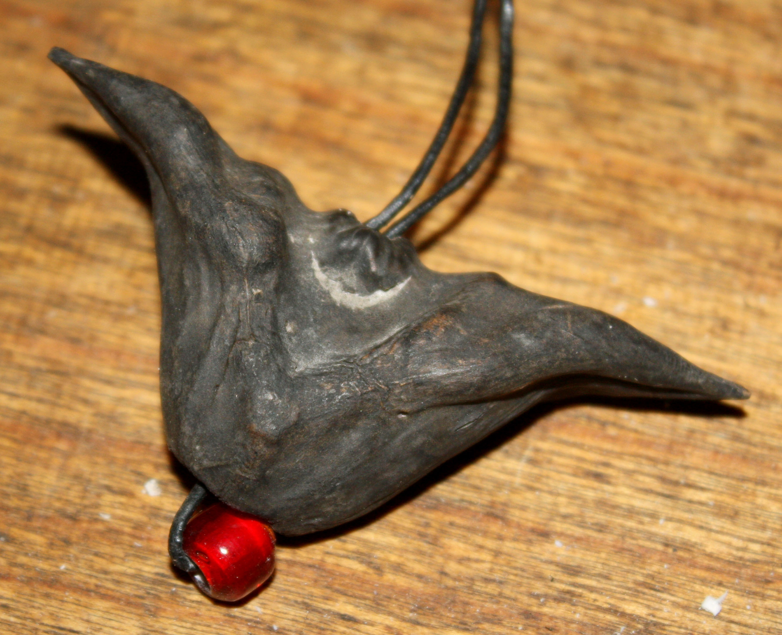 Water caltrop